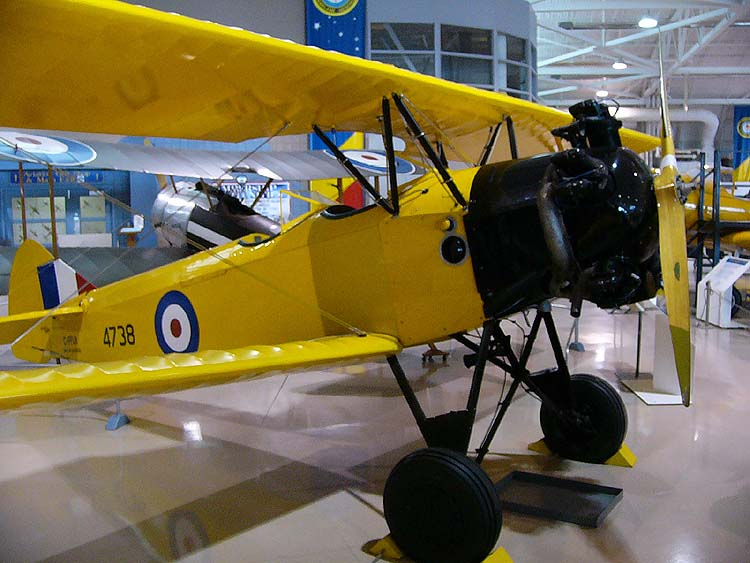 Fleet 16B Finch on at the Canadian Warplane Heritage Museum in Hamiliton Ontario on September 25th 2004.